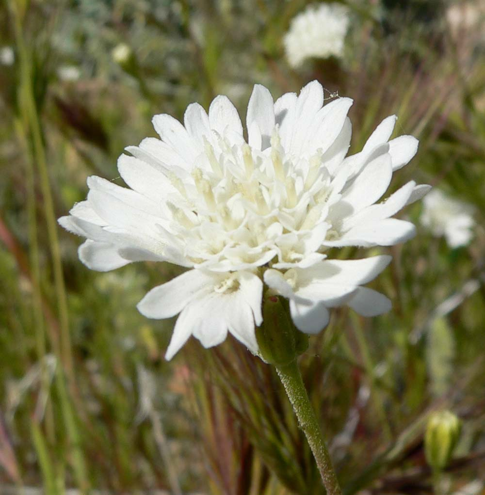 Photo of Chaenactis fremontii (Fremont pincushion) in Palm Canyon, California